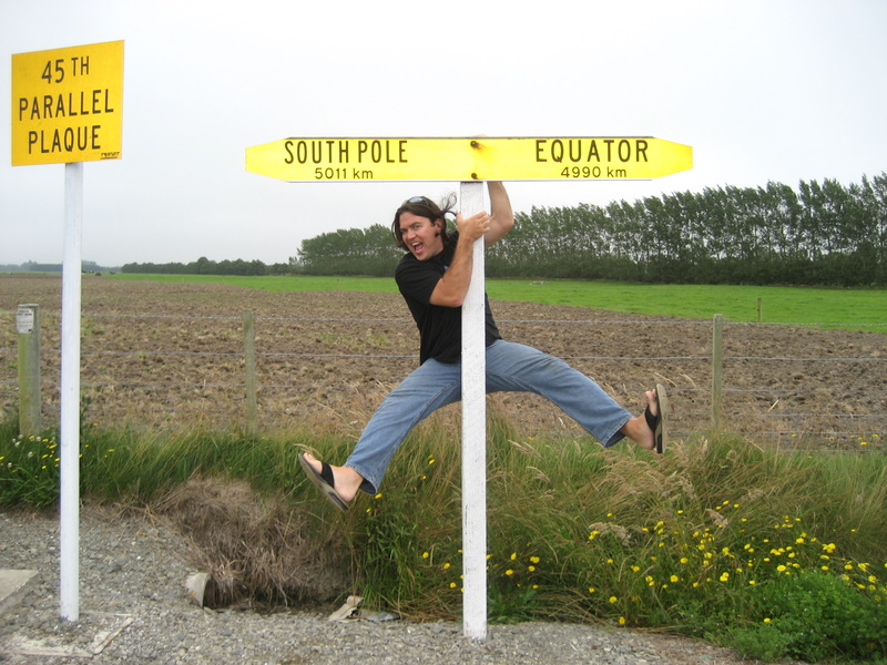 Jim Stone, from Texas, at the 45th in New Zealand